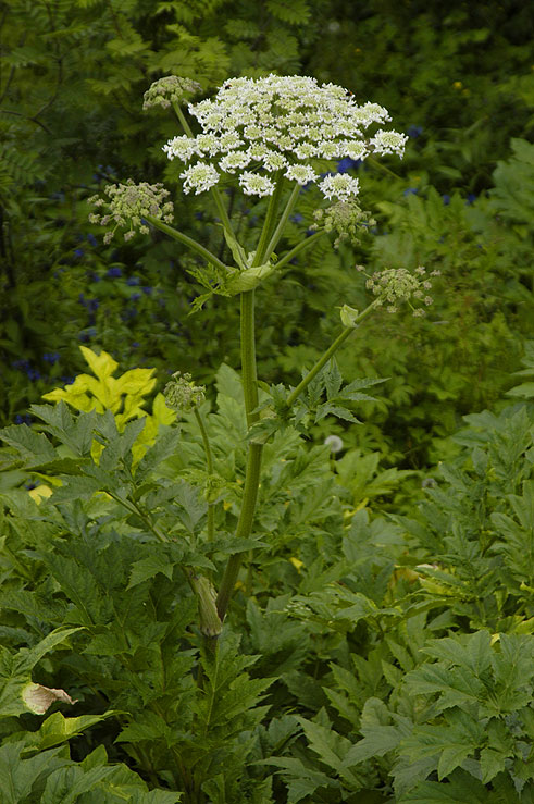 Tromsøpalme Heracleum persicum (syn. H. laciniatum, H. tromsoensis, etc). Total. Photo: Krister Brandser.